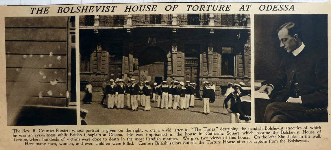 Selfexplaining. Read publisher's notes under the pictures